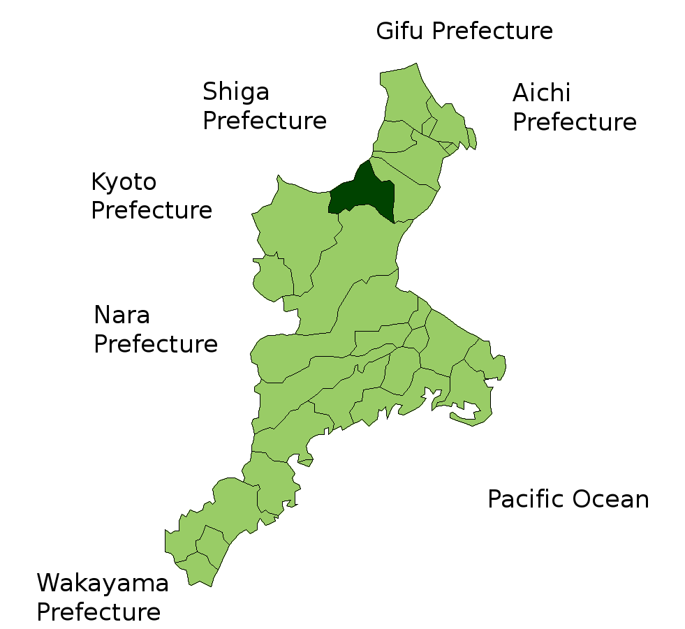 Location Map of Kameyama in Mie Prefecture, Japan